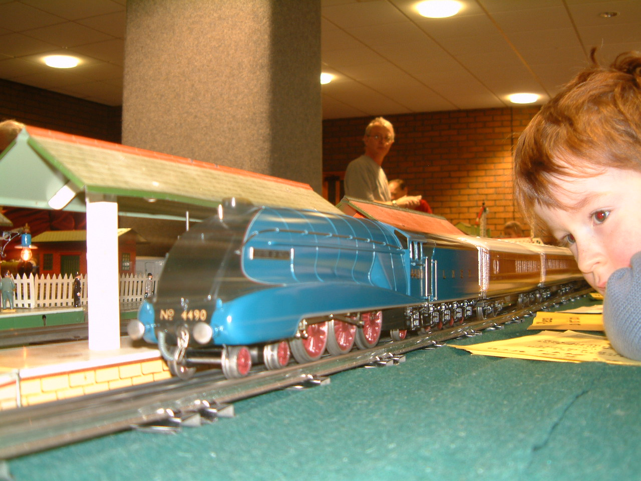 Rail transport modelling, The locomotive modeled is number 4490 an LNER Class A4 named "Empire of India"